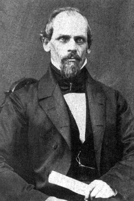 A more realistic photo of John Augustus Roebling (1806–69); most photos of him were stylised for advertising purposes.